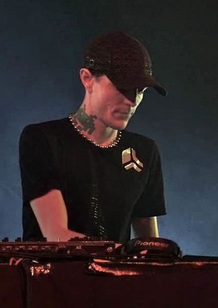 Deadmau5 live unmasked in Glastonbury in 2009